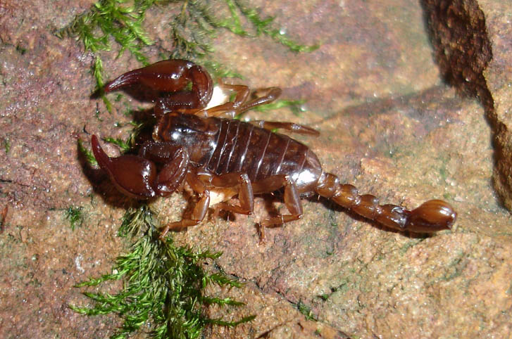 Euscorpius mingrelicus. Photo by Filip Lazarevic